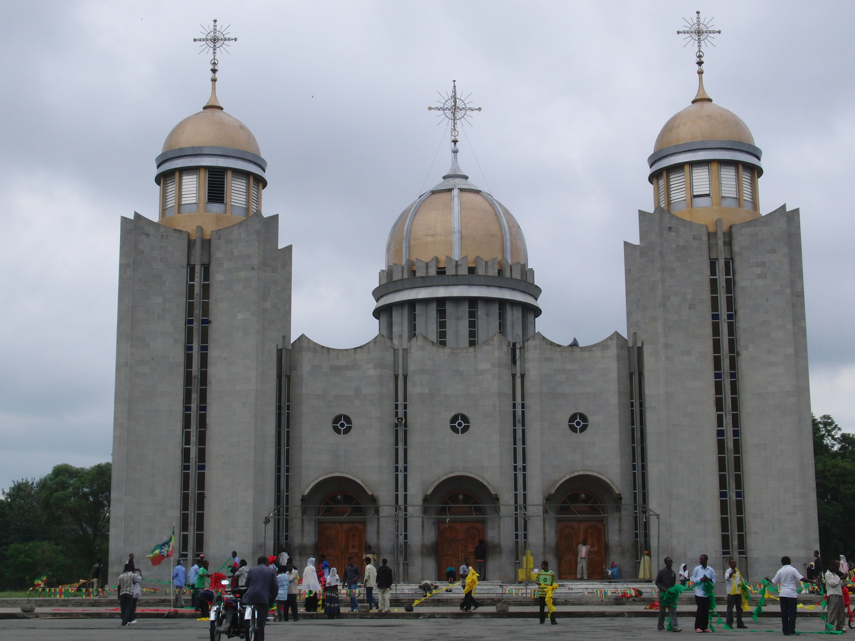 St. Gabriel Church in Awasa, South Ethiopia.